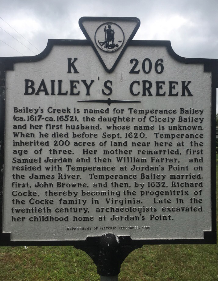 Marker provides history for Temperance Bailey. (Note relationship to Cecily Jordan Farrar on sign is implied based on plausible inference but not conclusively confirmed by historical documentation.)